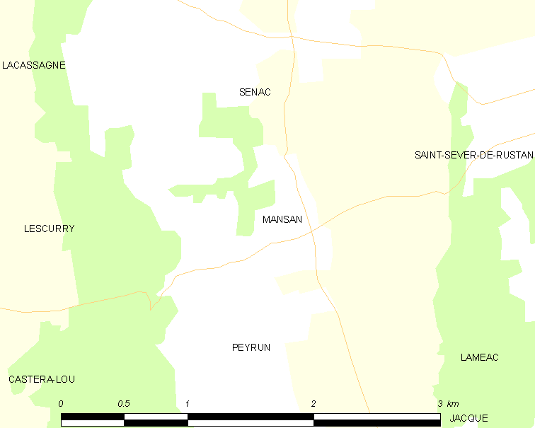 Map of French municipality